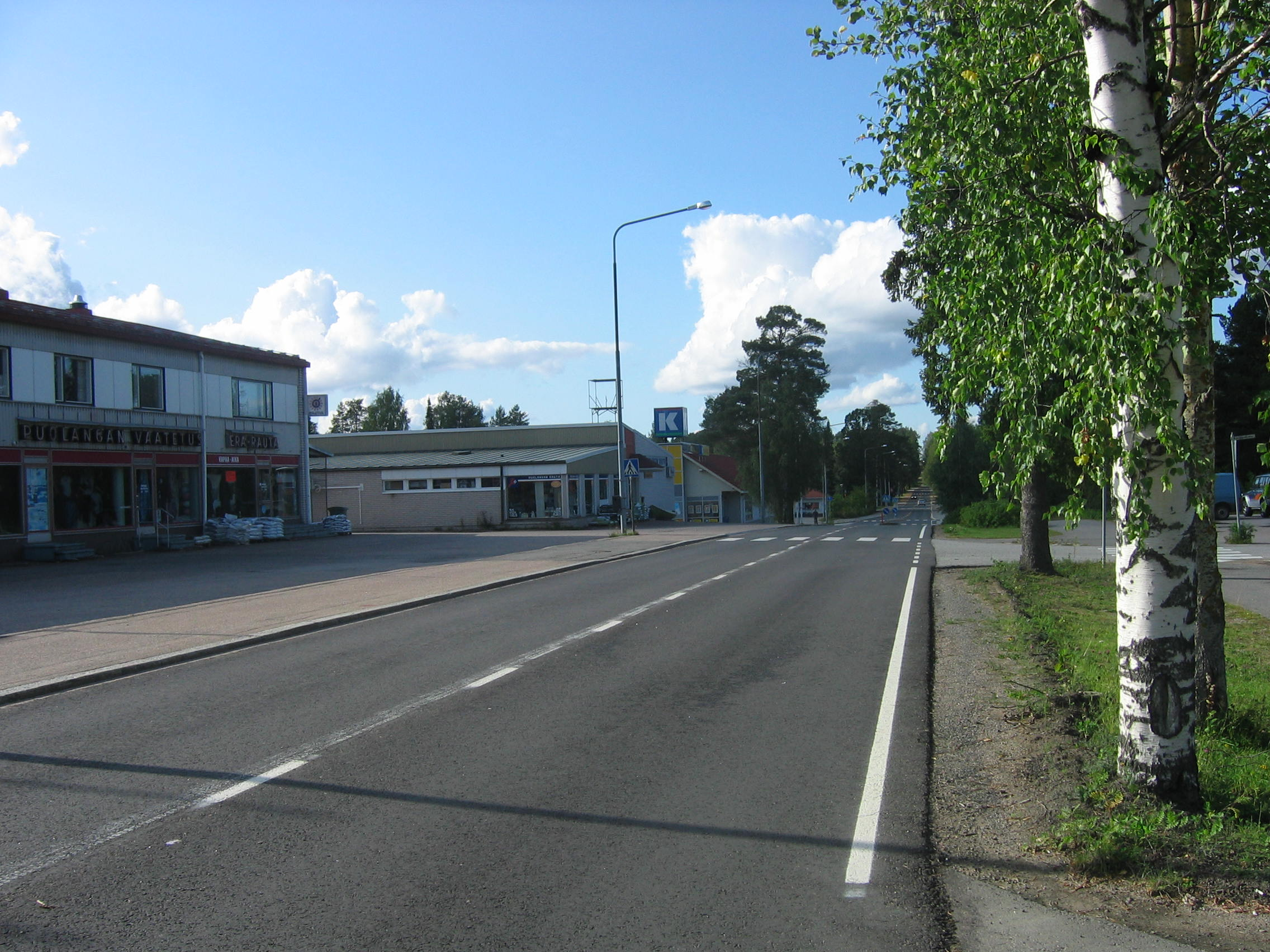 The centre of the municipality of Puolanka, towards South.